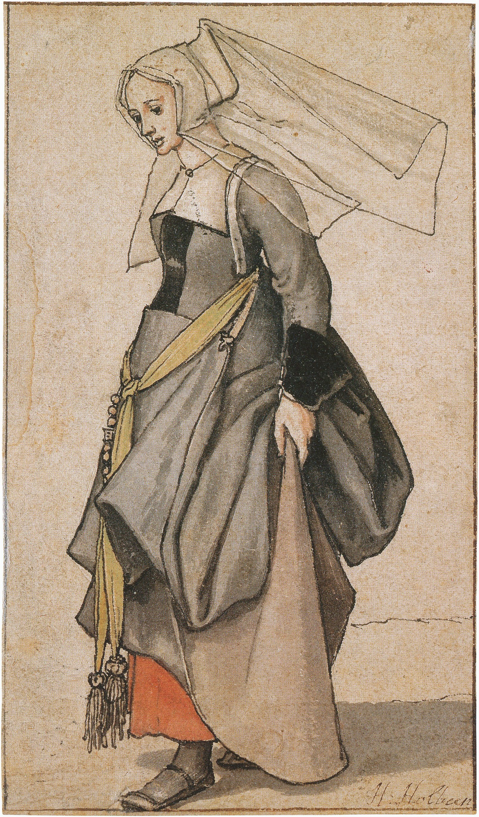 A Young Englishwoman, costume study. Pen and black ink and watercolour on paper, 16 × 9.2 cm, Ashmolean Museum, Oxford. The drawing was done either during Holbein's first stay in England between 1526 and 1528 (the costume resembles that in the More Family drawing) or early in his second stay, which began in 1532 (Foister, p. 110).